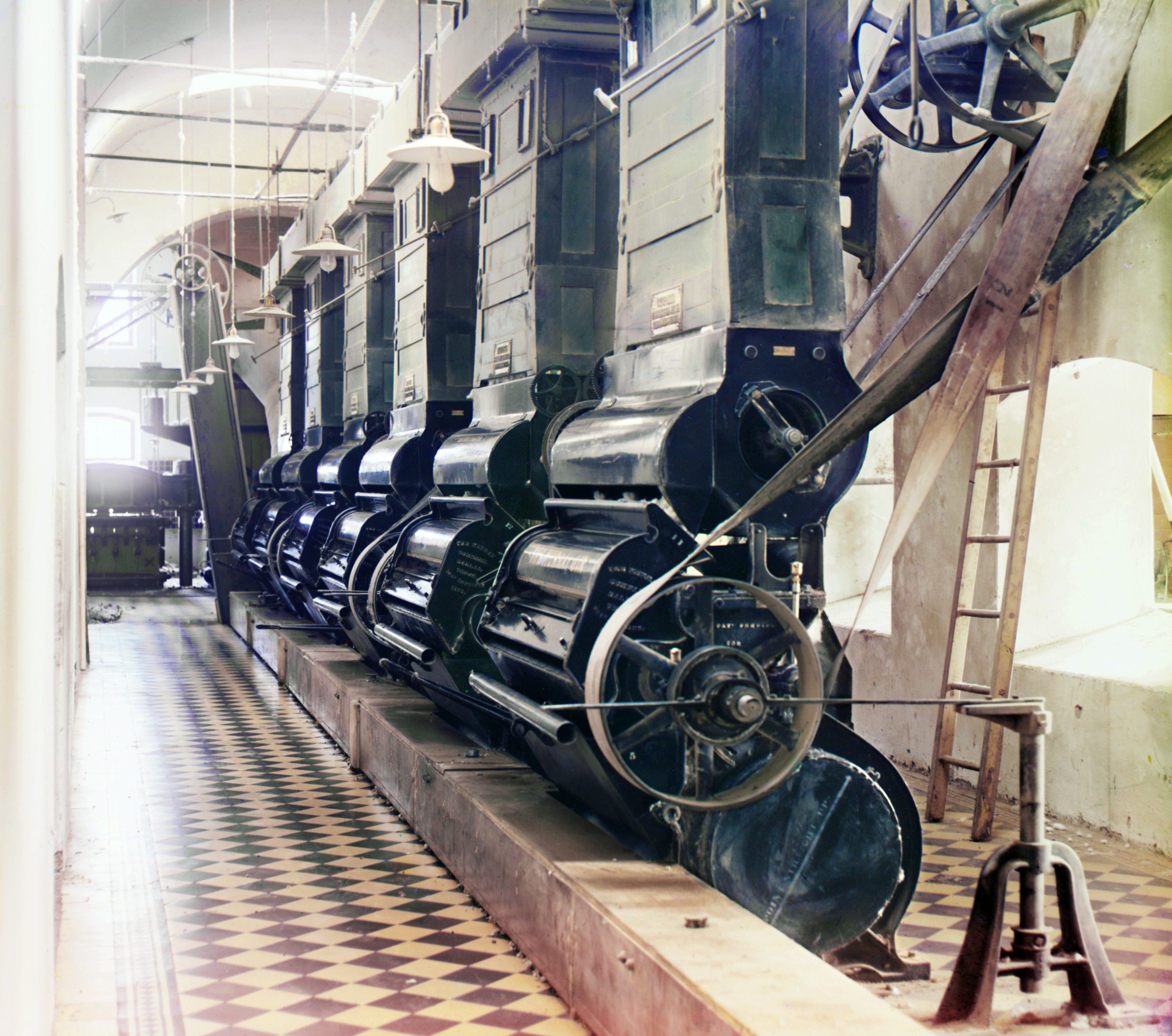 Cotton gin (?), in interior of mill, probably in Tashkent